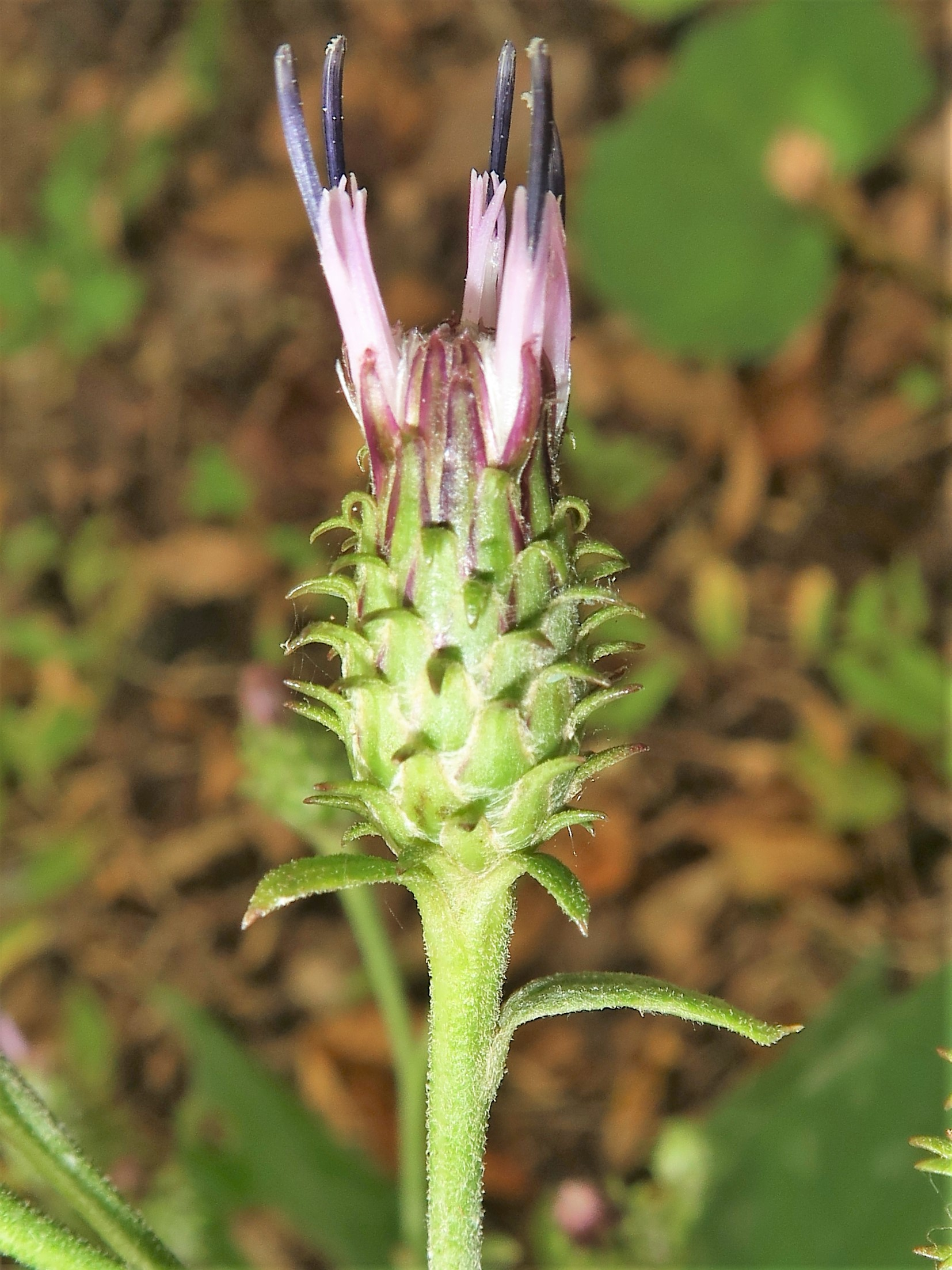 Saussurea yuki-uenoana, Marumori town, Igu district, Miyagi pref., Japan